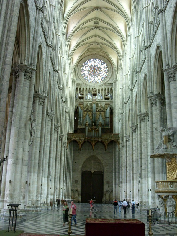 organ of amiens